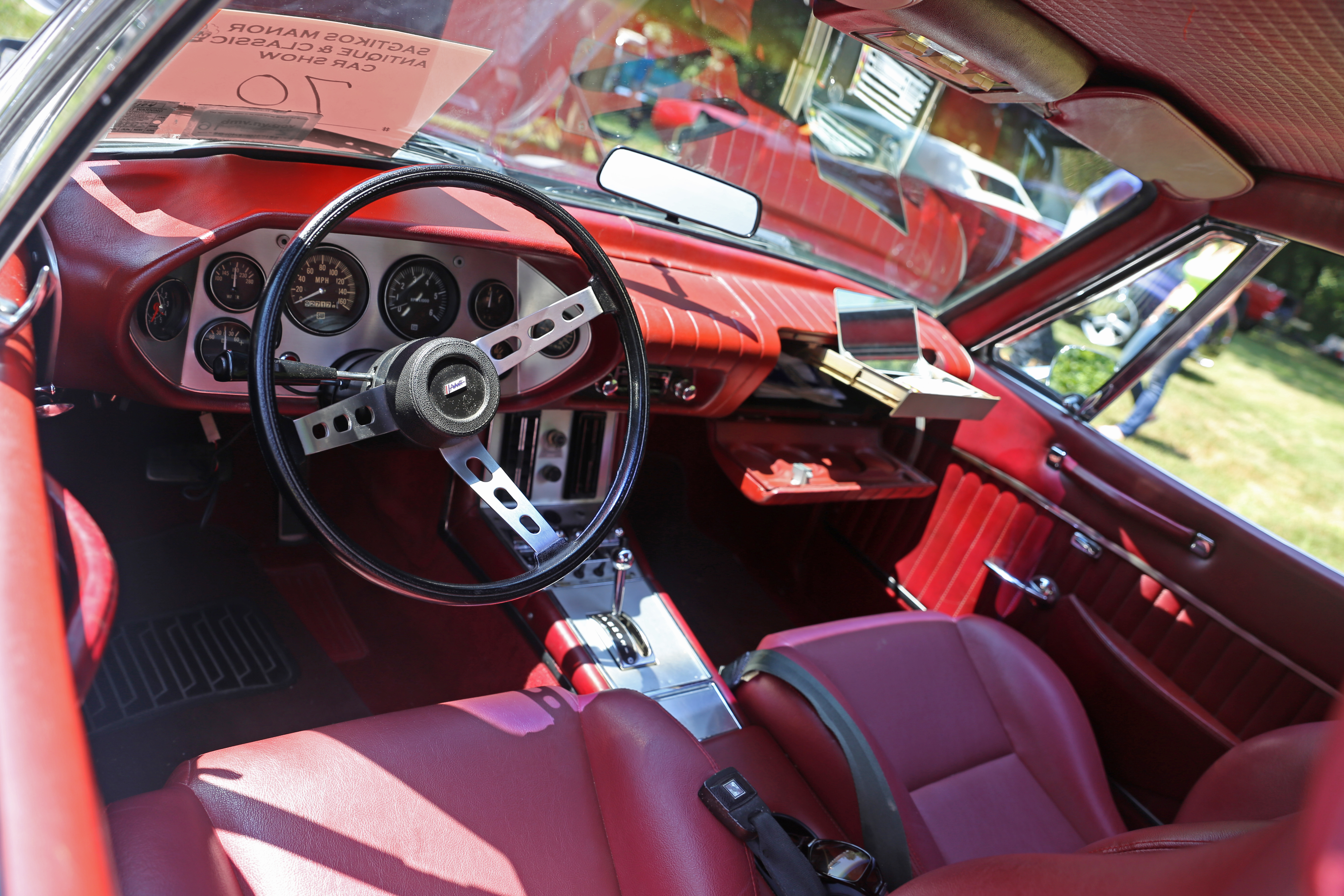 The dashboard in a 1975 Avanti II, serial RQ-B 2263. Turbo Hydramatic. The 160mph speedo might be optimistic, but the Avanti with the 400 engine must have been fairly fast.